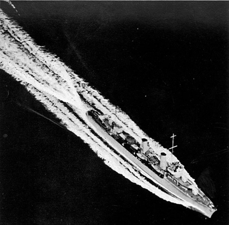 Studies in Wave Formation. Two aerial views of a destroyer (the Royal Yugoslav Flotilla Leader Dubrovnik) running at 37 knots